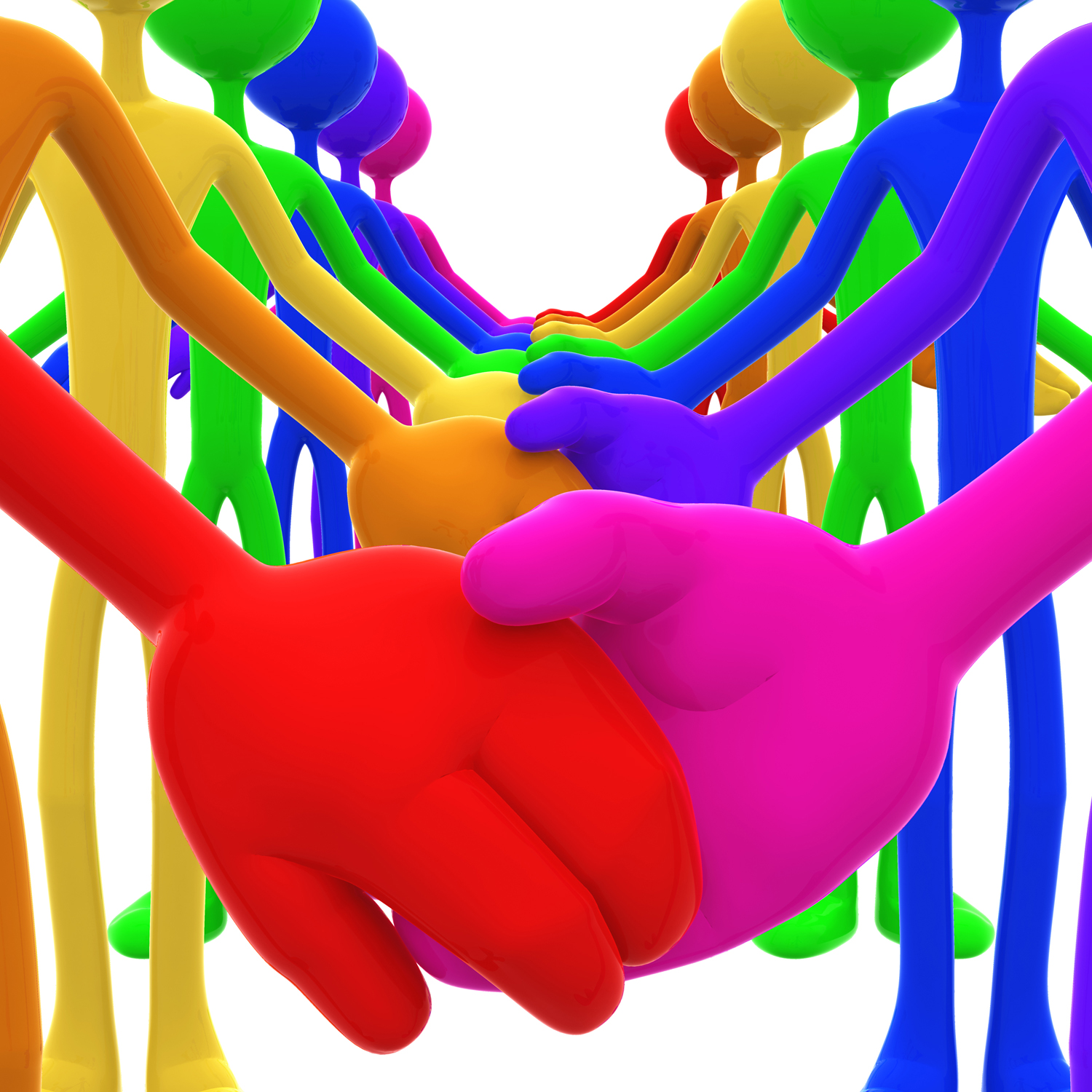 Linkware Freebie Image use it however you like all I ask is a credit link to : or